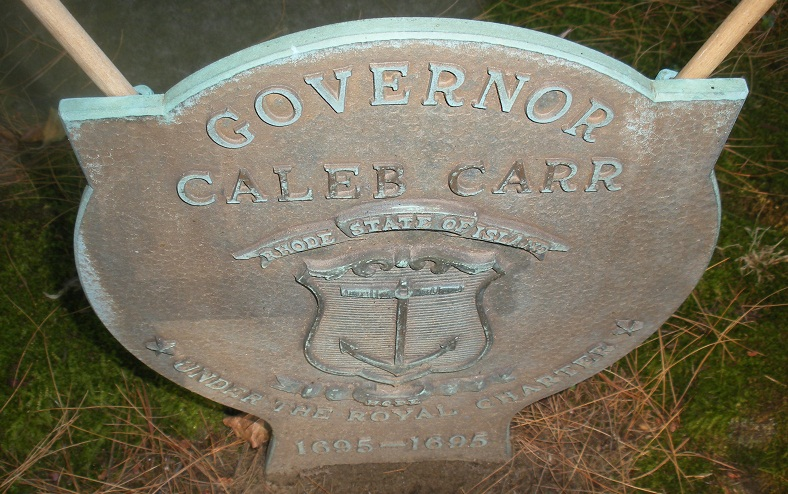 Grave medallion for colonial Rhode Island governor Caleb Carr at Carr Cemetery, Jamestown, Rhode Island